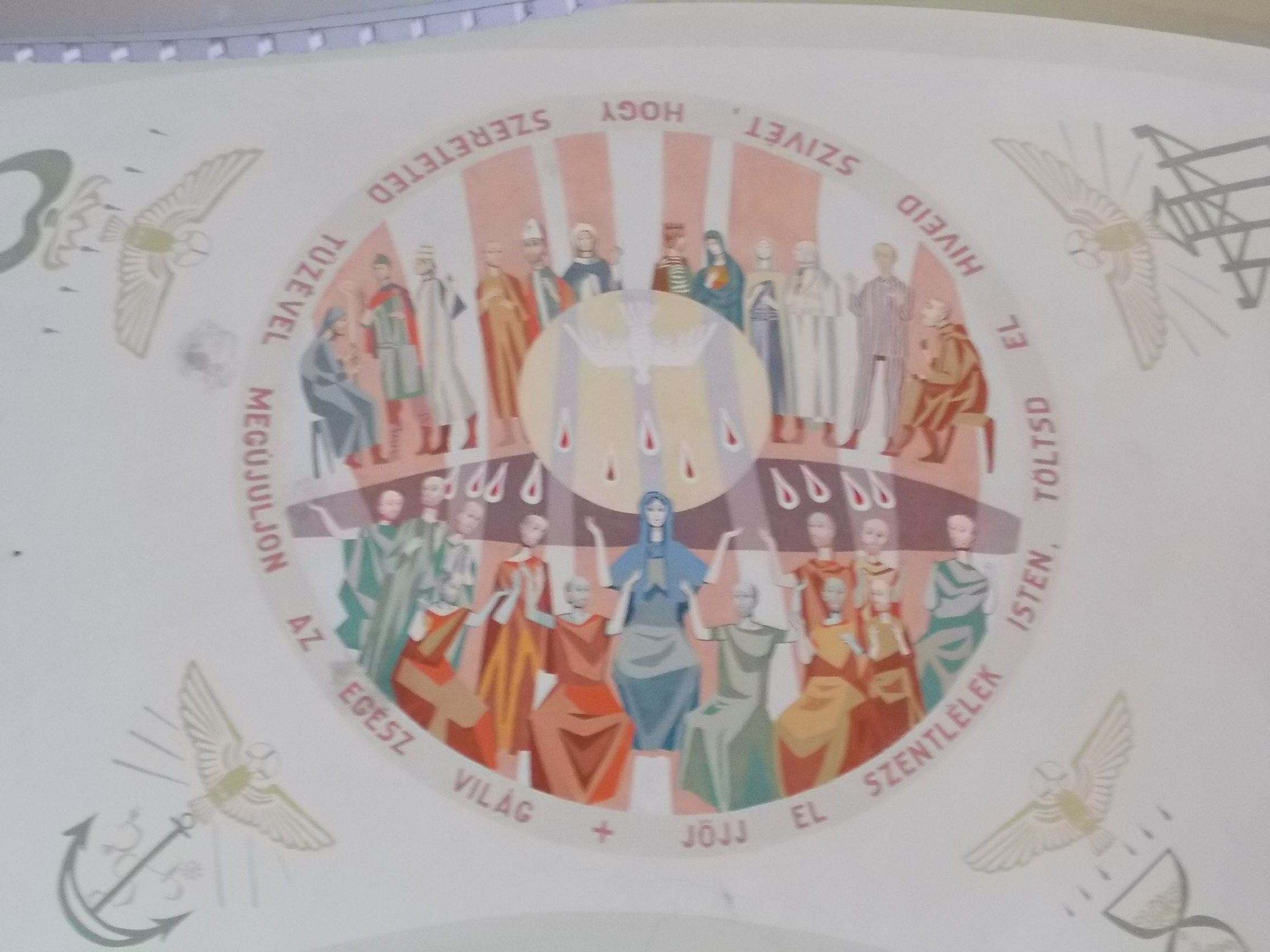 Holy Cross Church. Listed ID 6441. Interior. - Tata, Komárom-Esztergom County, Hungary